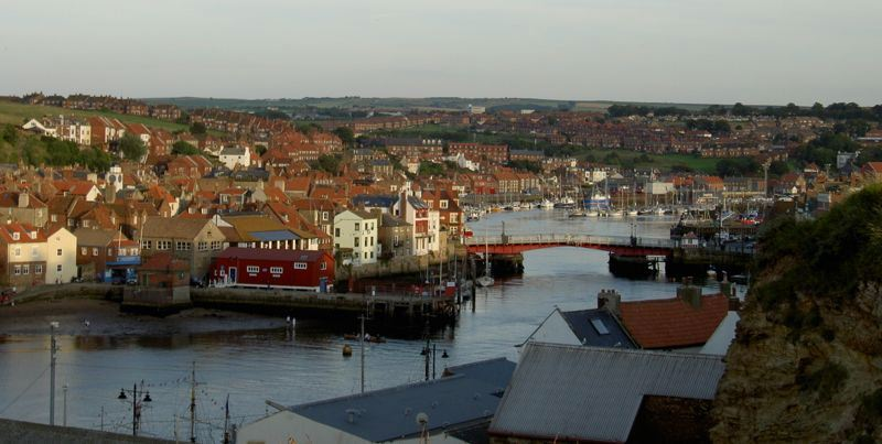 View of Whitby, Yorkshire